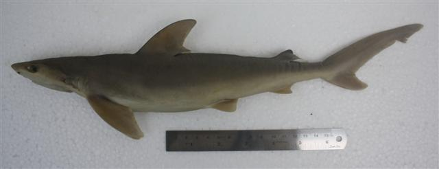 Blackspot shark (Carcharhinus sealei) at Terengganu, Malaysia